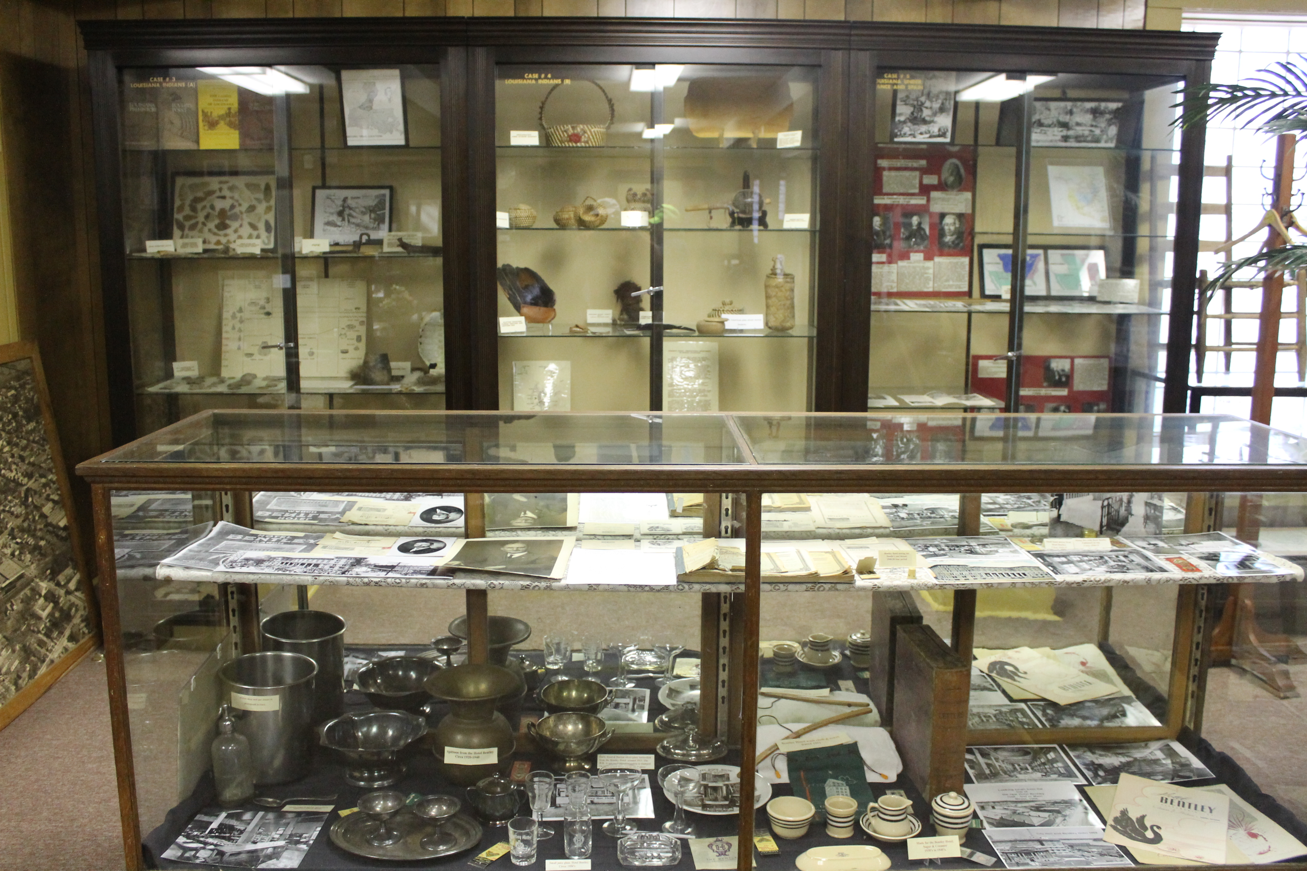 Artifacts encased at Louisiana History Museum in Alexandria, LA